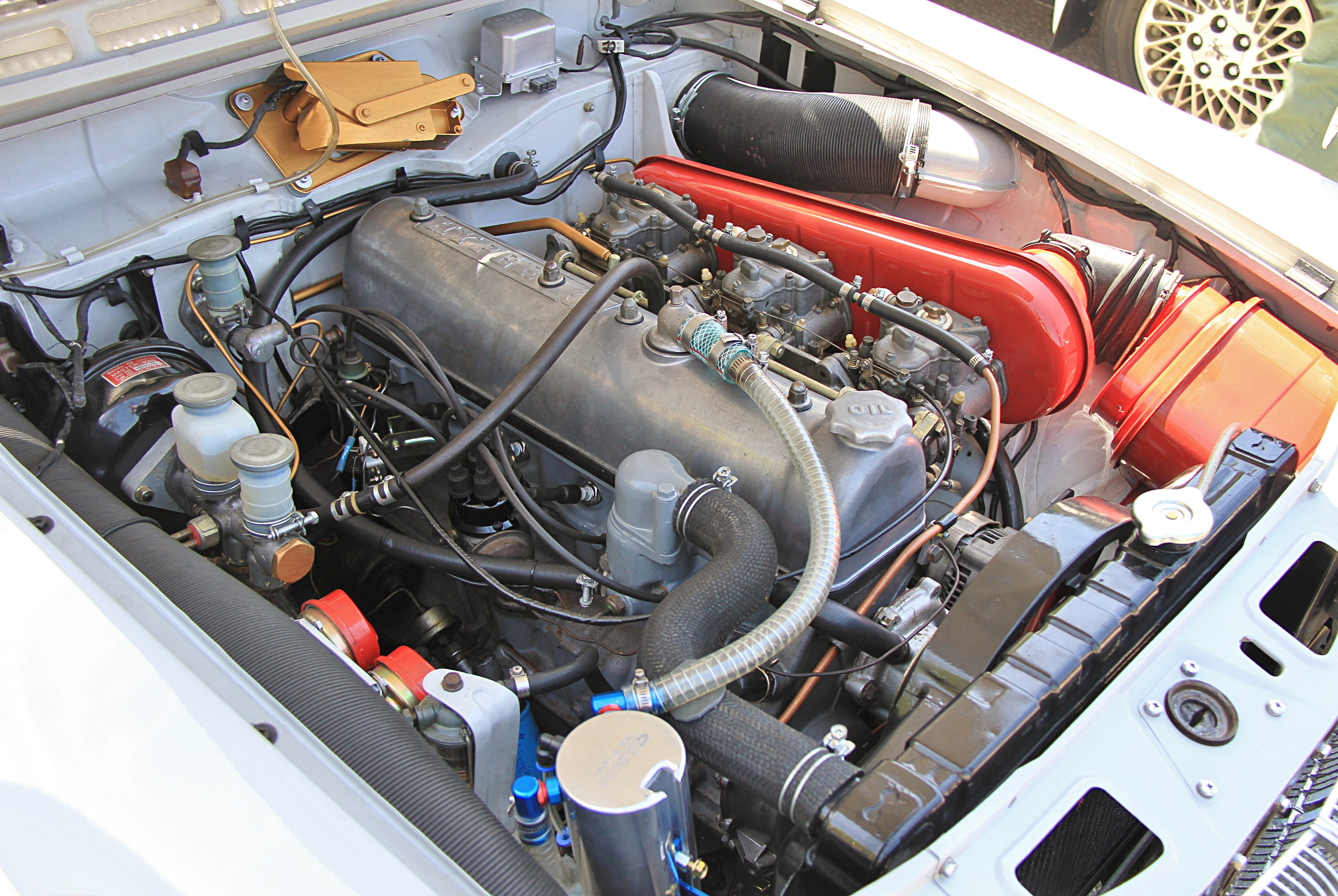 Prince G7 engine